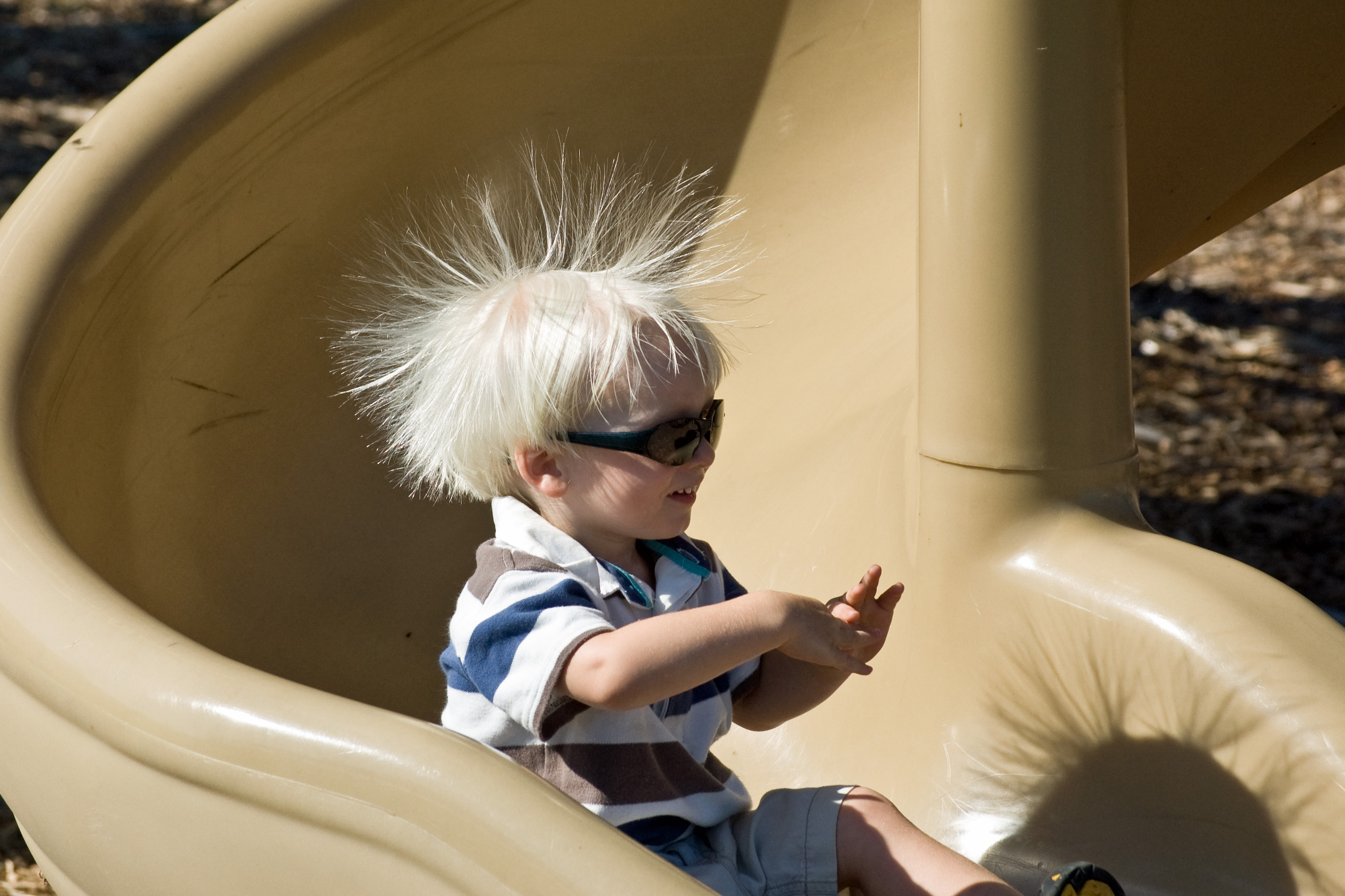 You should get a charge out of this. My sliding grandson and static electricity combine to make a very humorous photo. Look for the shadow. It's priceless. This shot was completely candid. We tried to stage it at least another dozen times and it never worked again.